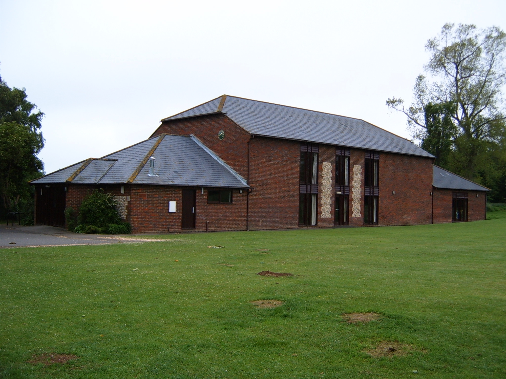 Walberton Village Hall, West Sussex